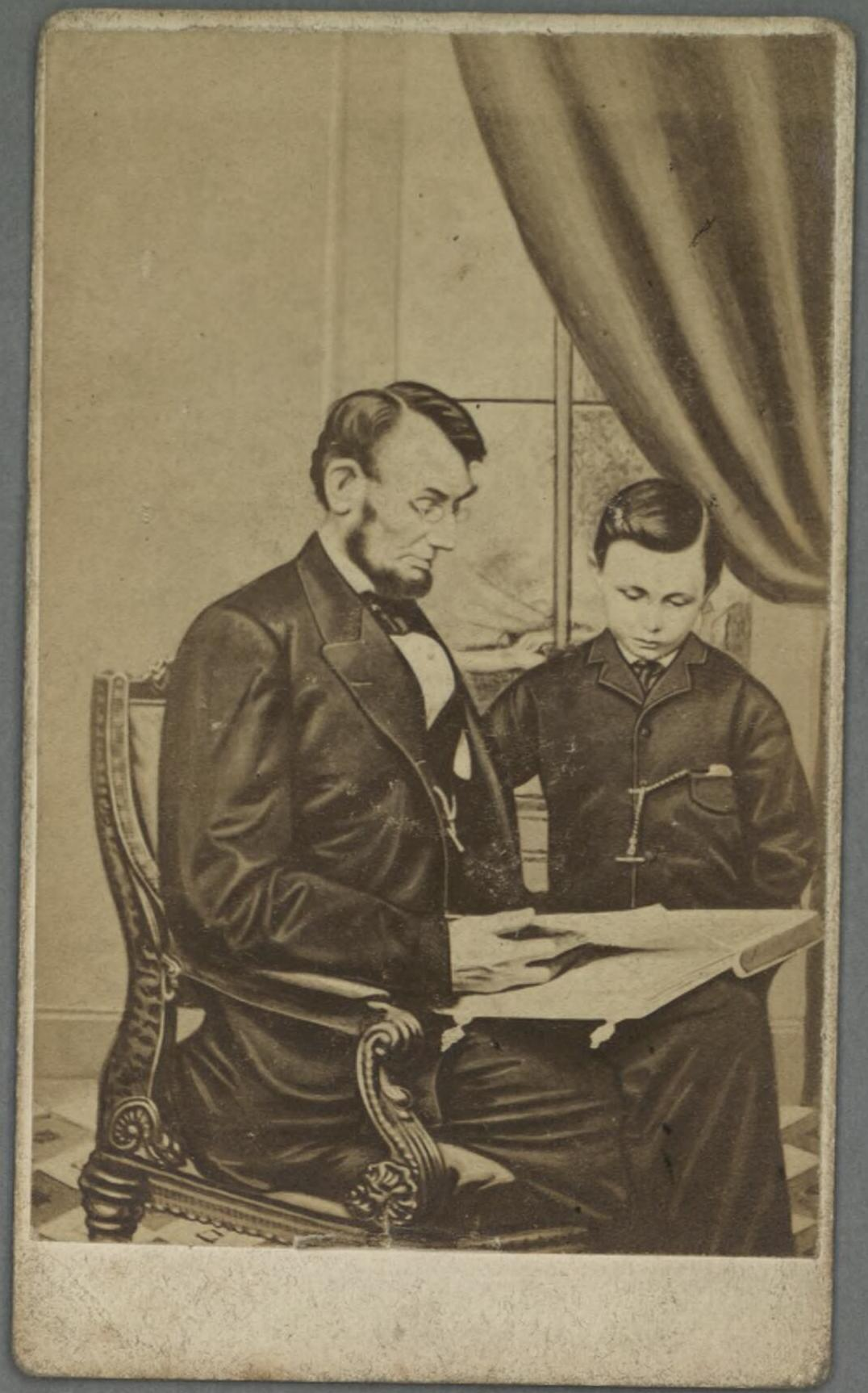 A portrait from the Welsh Portrait Collection at the National Library of Wales. Depicted person: Abraham Lincoln – 16th president of the United States